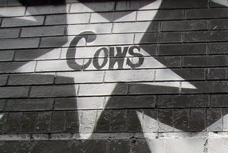 First Avenue in Minneapolis, Minnesota. Photo taken by Tom S.